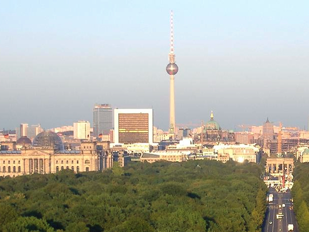 Berlin - Tiergarten from Siegessäule, east towards the Reichstag, Alexanderplatz television tower and the Brandenburg Gate